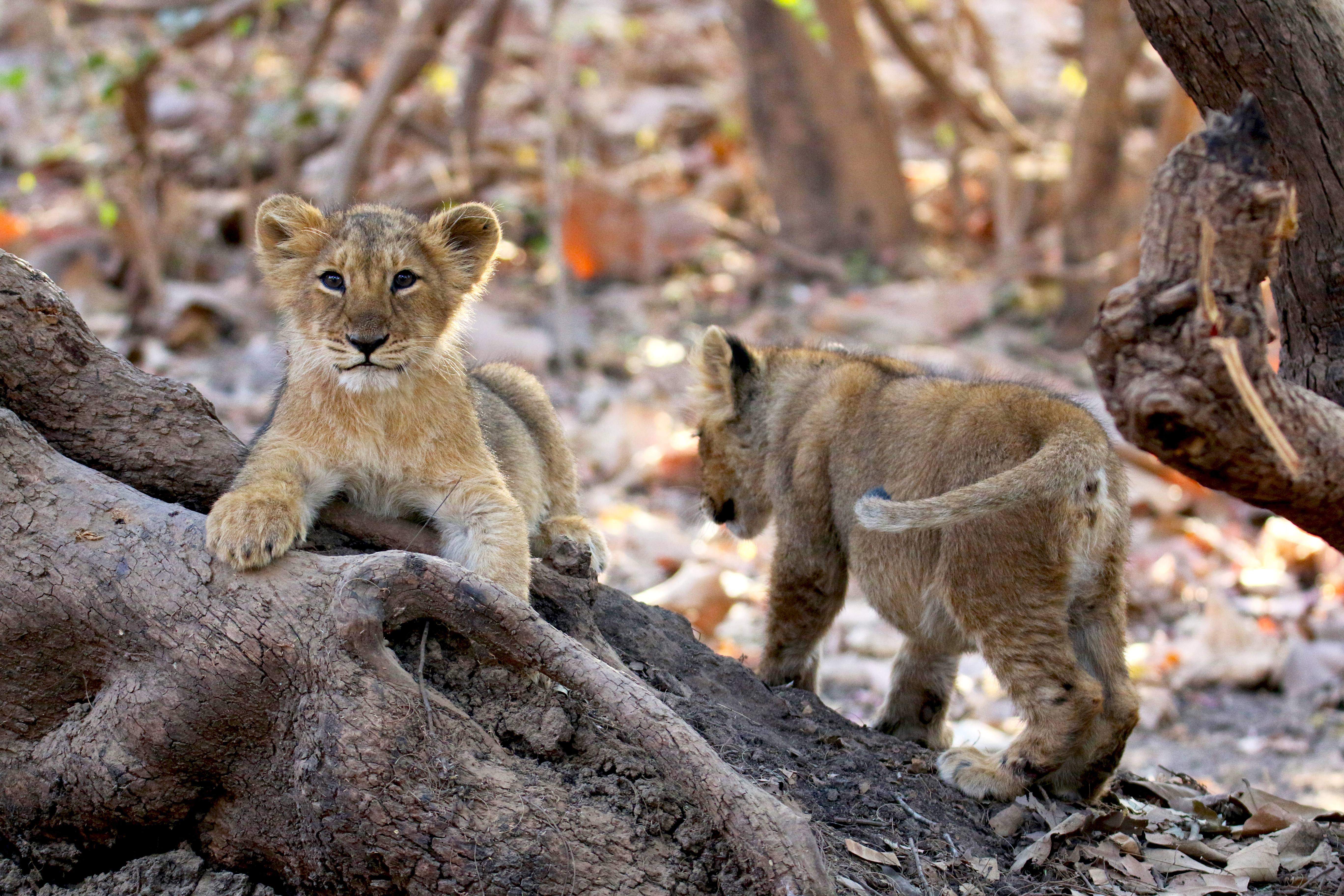 Lion Cubs of Asiatic Lion in the Gir Forest